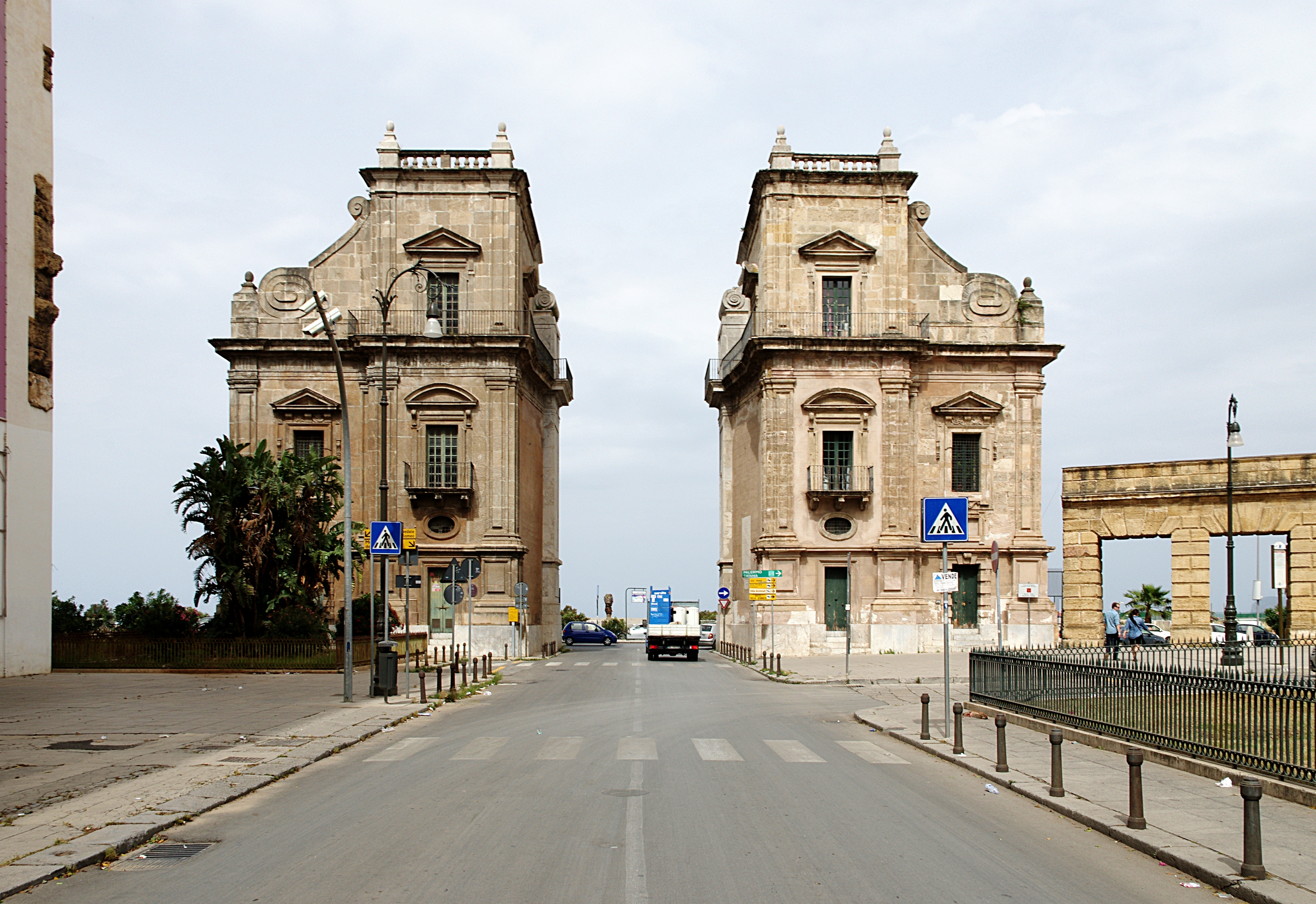 Palermo in Italie. The Porta Felice at the Via Vittorio Emanuelle.